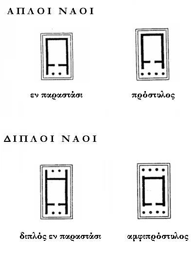 Ancient greek temple types